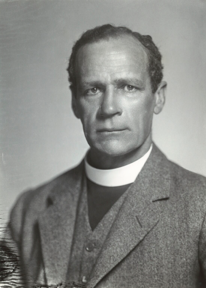 Robert Hamilton Moberly (1884-1978), Bishop of Stepney and Dean of Salisbury. Published by Elliott and Fry photographers. Every attempt has been made online and in libraries to find the individual photographer; but none has been found.